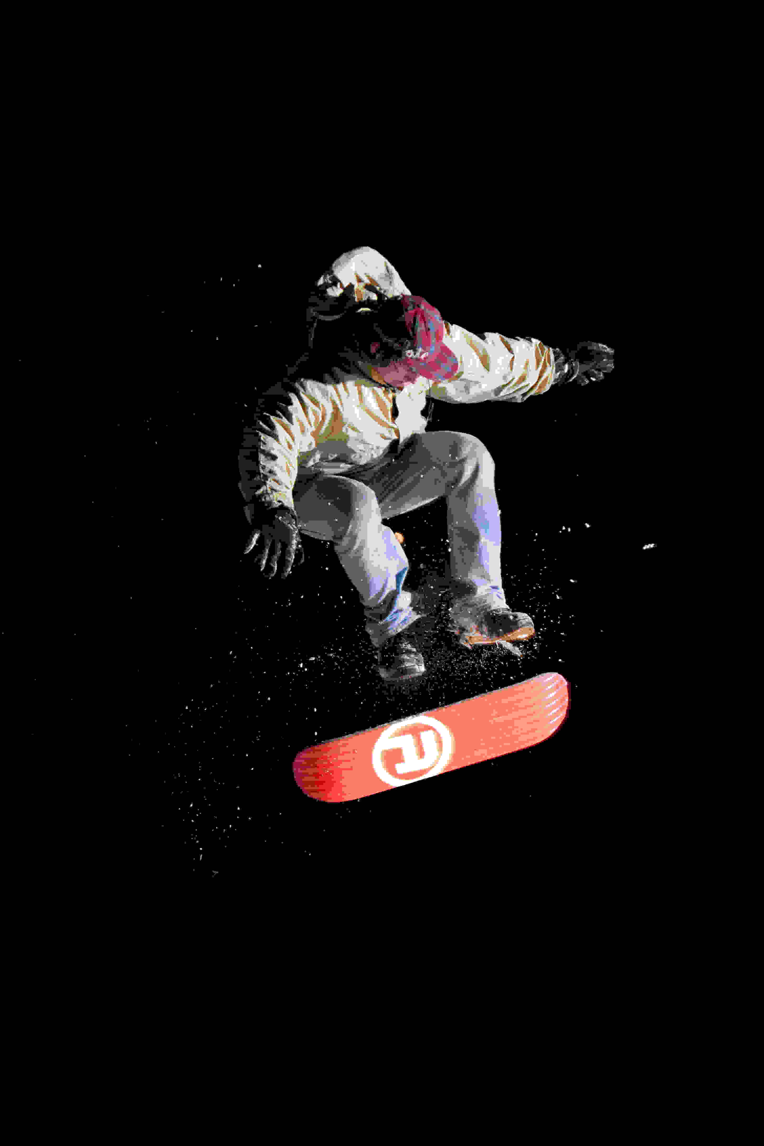 A snowskate is a flat skate deck ridden on snow. Sometimes snowskates are attached to a ski and are called a "bilevel snowdeck". Snowskating combines the elements of snowboarding and skateboarding to create a new experience which is most closely described as skateboarding on snow.